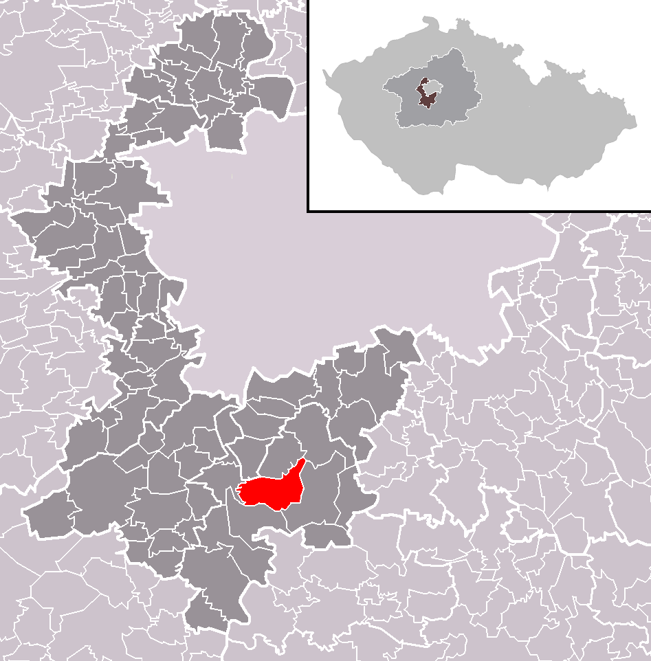 Location of Petrov municipality within Prague-West District and administrative area of Černošice as a Municipality with Extended Competence.